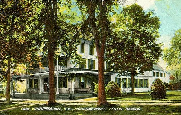 The Moulton House, Center Harbor, NH; from a c. 1910 postcard.